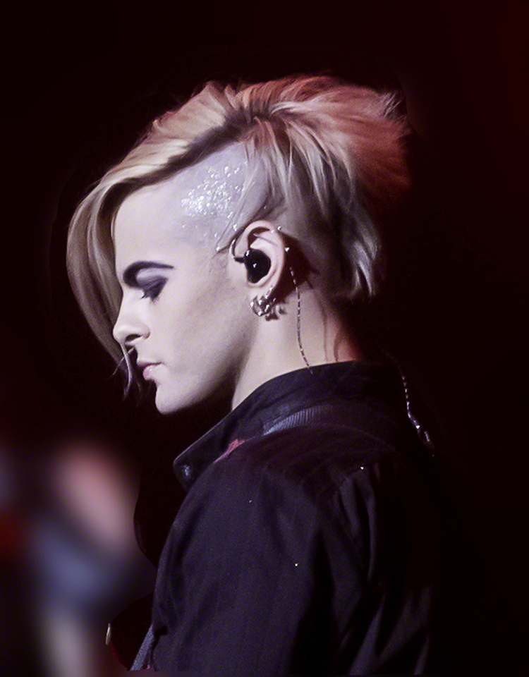 Tommy Joe Ratliff performs on the Glam Nation Tour in Hawaii, October 2010.